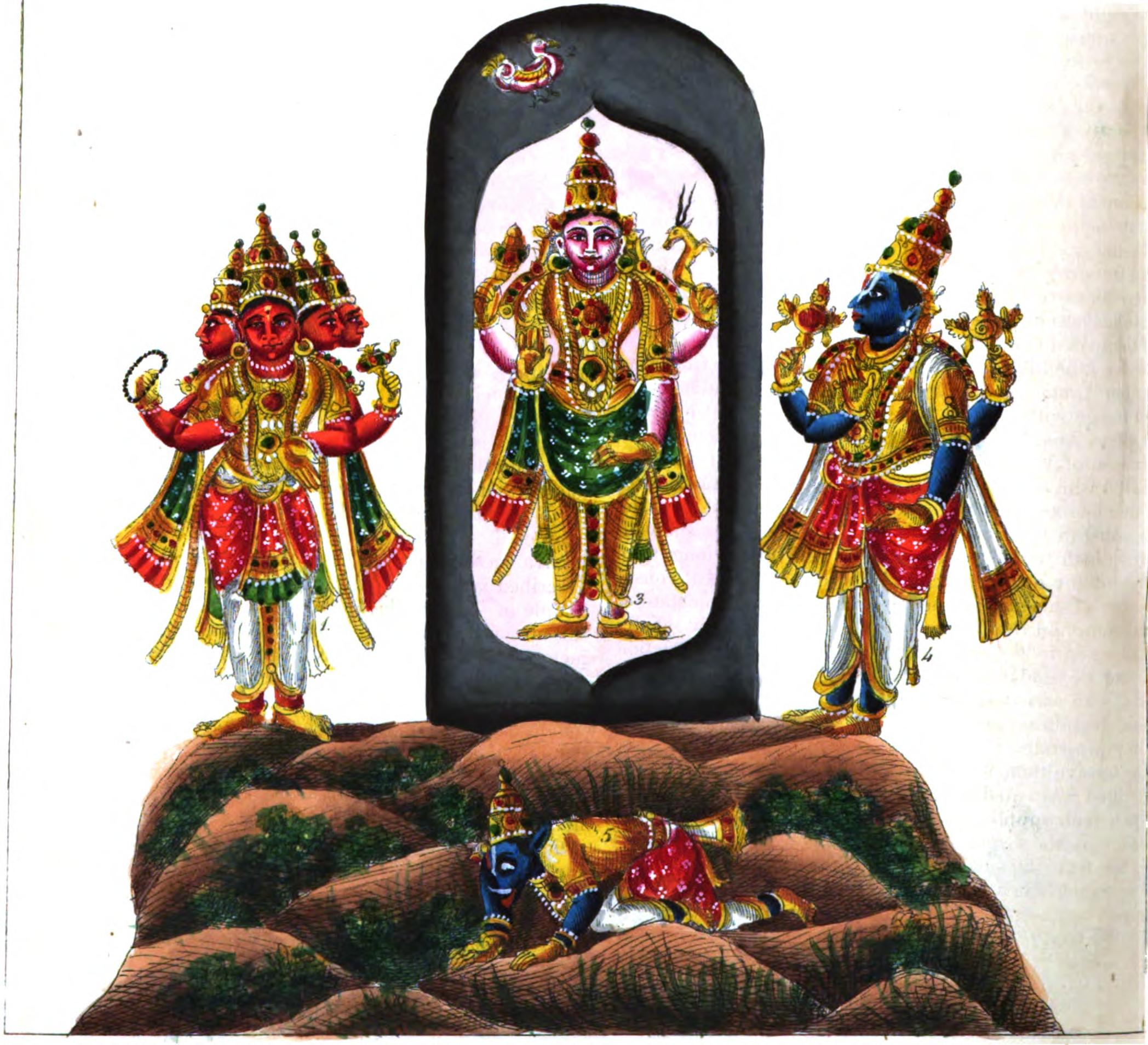 lingodbhava